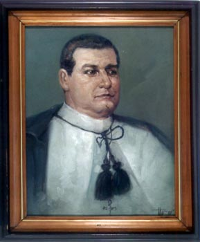 Bernardo Nozaleda y Villa was a native of Asturias, Spain. Originally a professor in Manila. He took his duty as the 25th Archbishop of Manila on Oct. 29, 1890. He was the last Spanish archbishop of the metropolitan, relinquishing his post to an American in 1903.